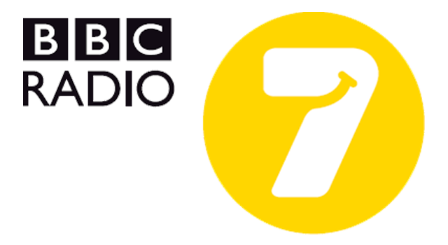 BBC Radio 7